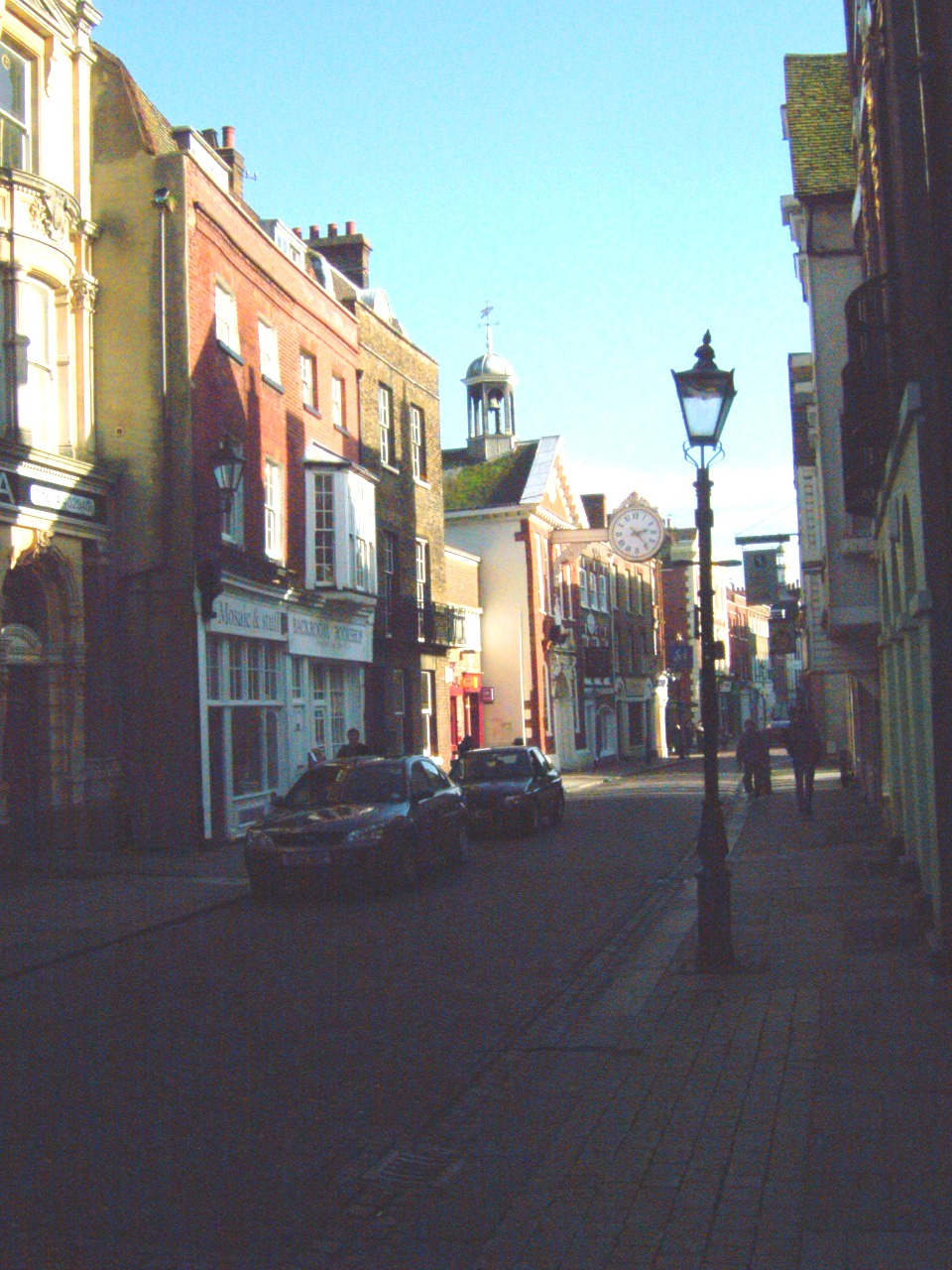 Attrib: Clem Rutter, Rochester.